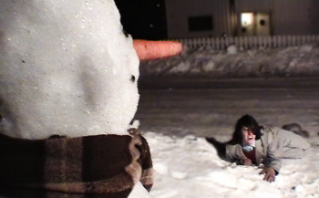 Screenshot from the short film Cold Affair